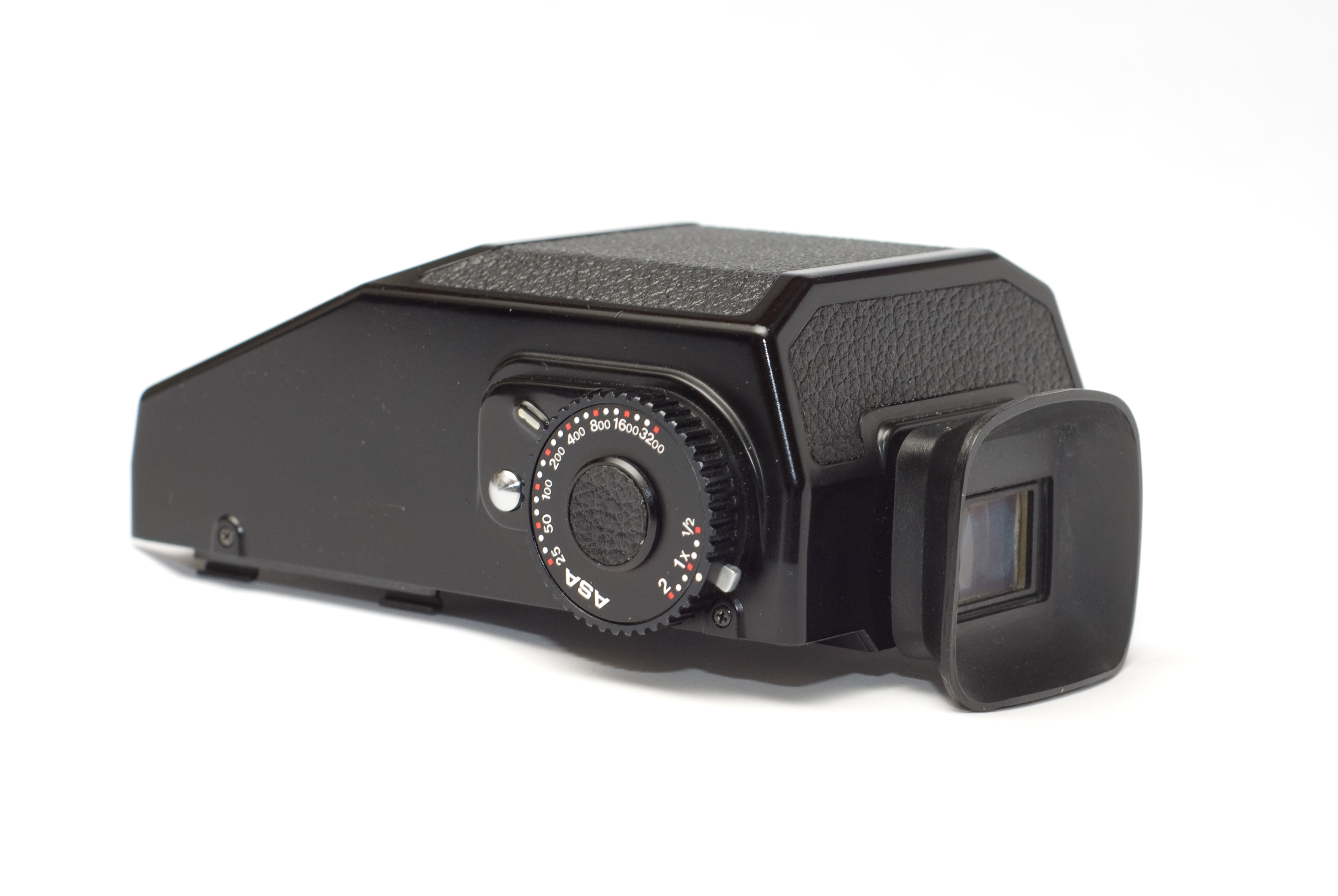 Viewfinder for Bronica ETR series camera.